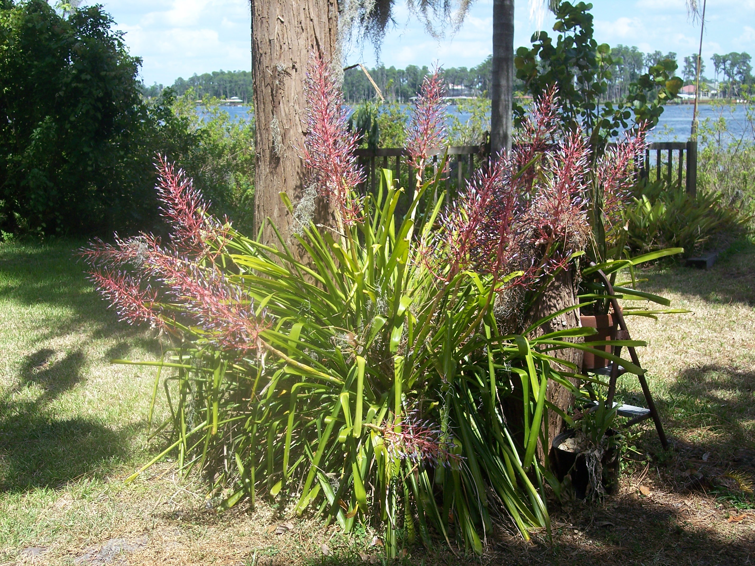 Portea in nearly full sun. Tampa, Fl.